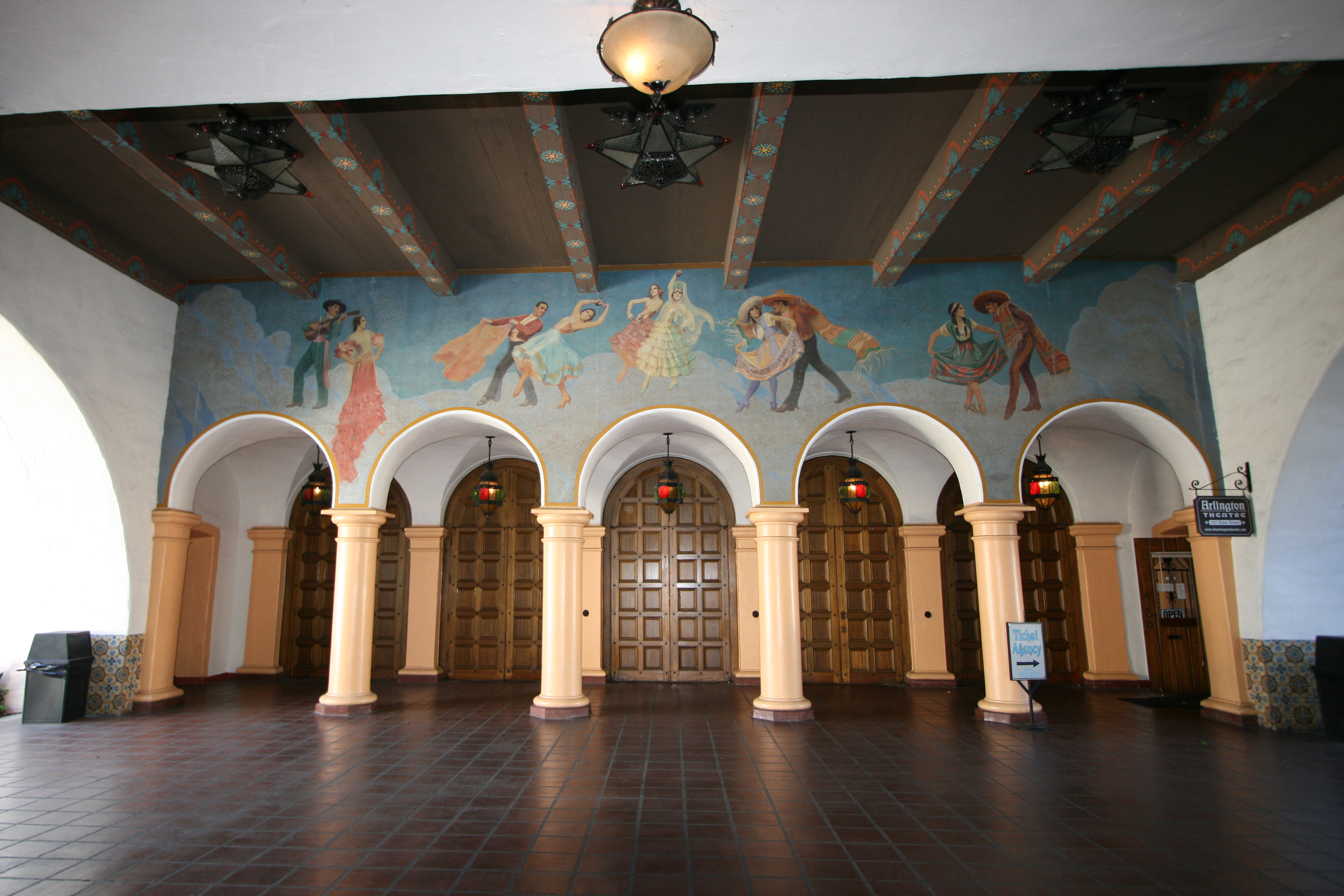 Arlington Theater, Santa Barbara, CA. These are the doors into the theater. No photos are allowed inside.